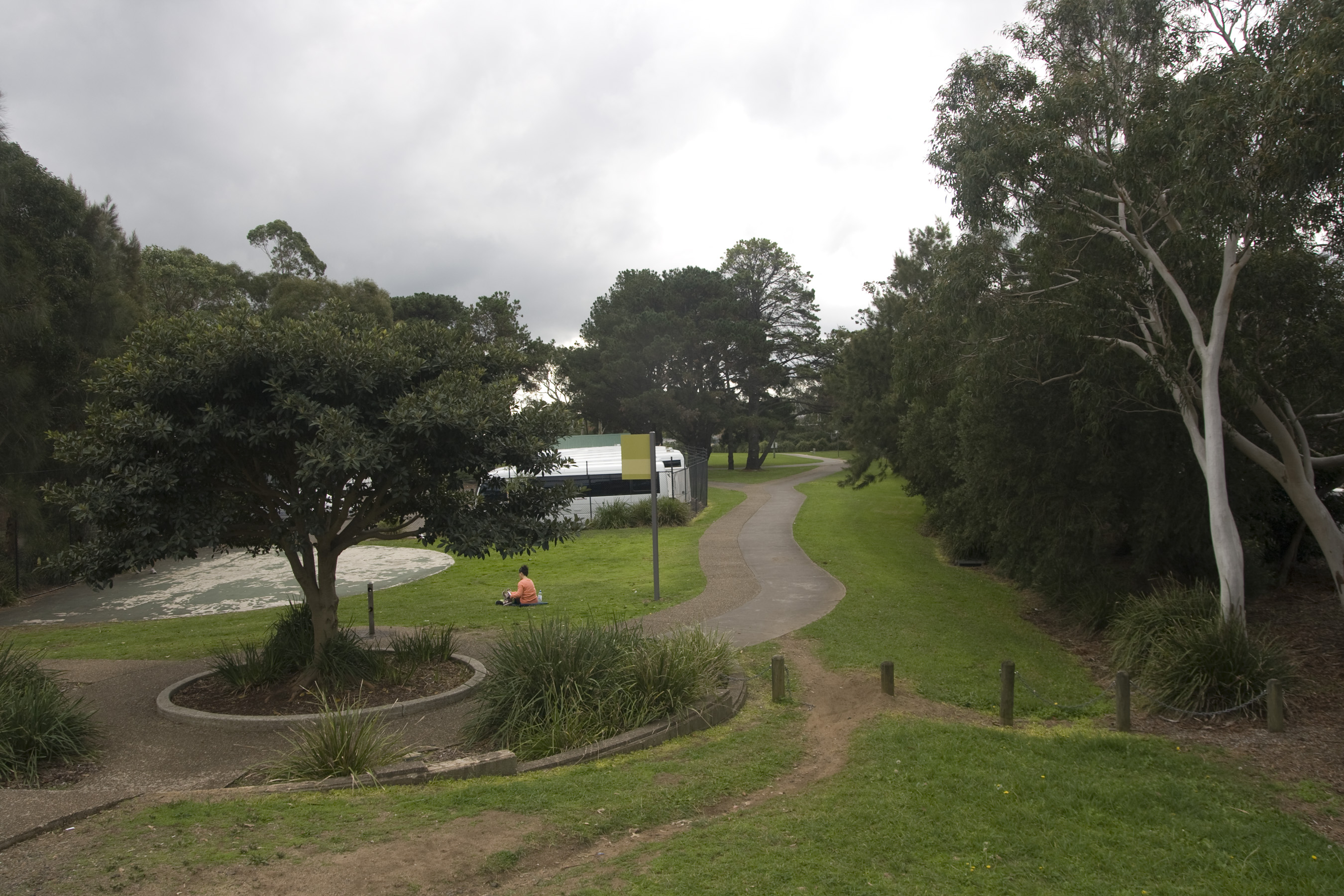 Cooper Street Reserve